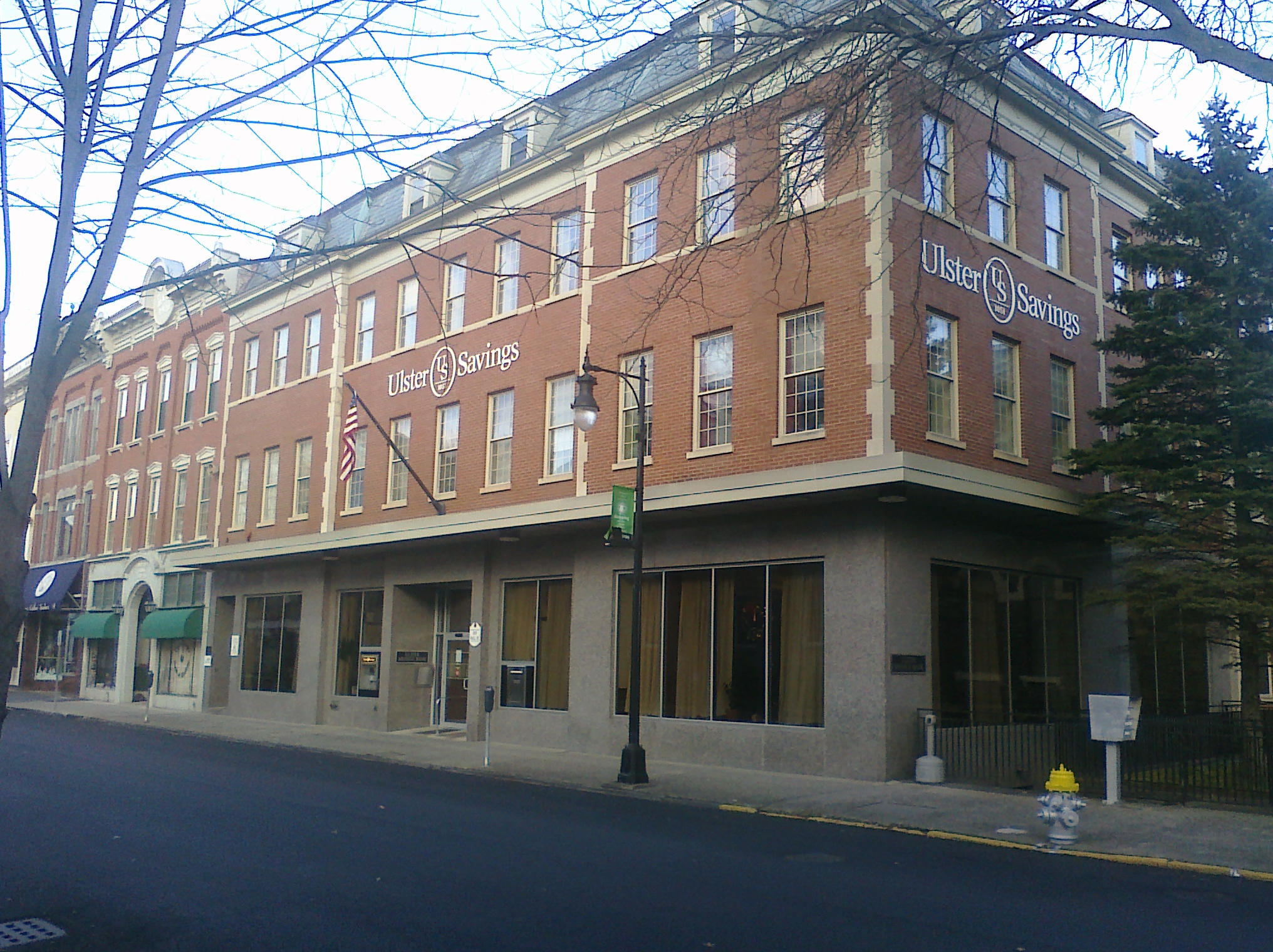 The Ulster Savings Bank branch on Wall Street in Kingston, New York